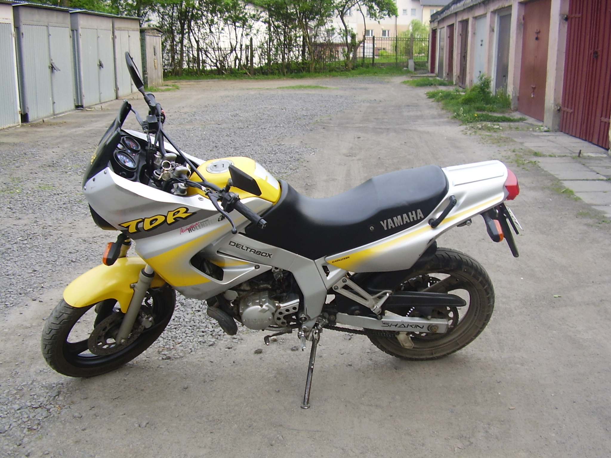 This is photo of MY Yamaha TDR 125 for Wikipedia's site about this motorcycle! This photo is already existing on my BikePics profile